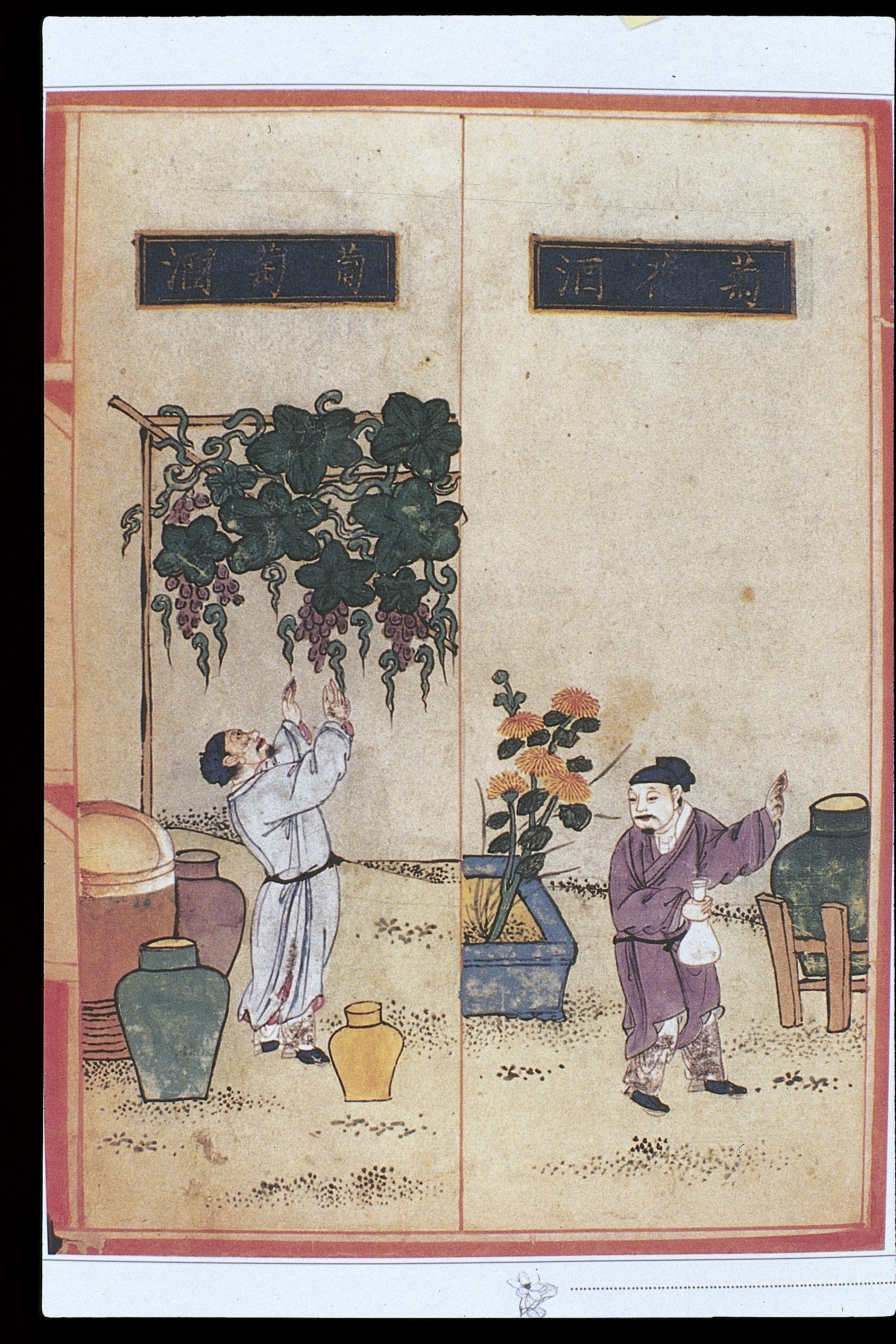 Illustrations fromShiwubencao(Materia dietetica), a dietetic herbal in four volumes dating from the Ming period (1368-1644). The identity of the author and artists is unknown. It contains entries on over 300 medicinal substances and is illustrated by almost 500 paintings in colour.The illustrations depict the manufacture of chrysanthemum liquor and grape wine.The text states: Chrysanthemum liquor clears wind from the head, increases the acuity of the ears and eyes, alleviates paralysis, stimulates the appetite, invigorates the spleen, warms Yin and raises Yang, and eliminates a hundred illnesses. Grape wine replenishes Qi and regulates the centre; however, it is rather heating in thermostatic character. It is suitable for Northeners to drink, but Southerners should not drink large quantities of it. Painting